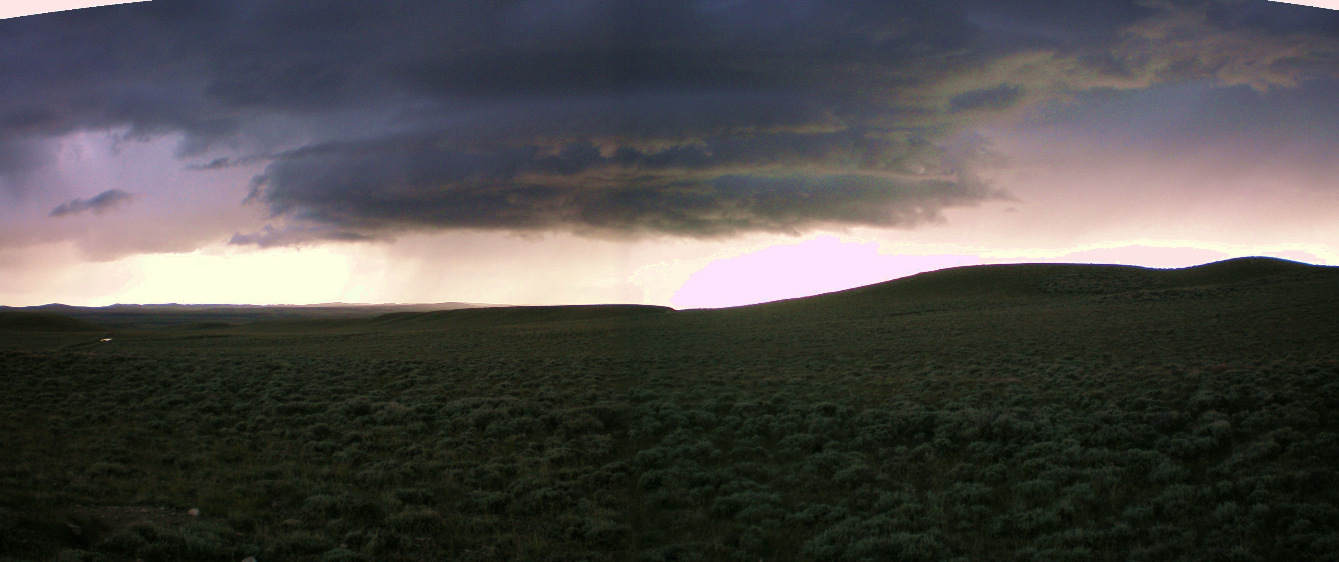 Storms arise suddenly in the Divide Basin; there is no place to hide